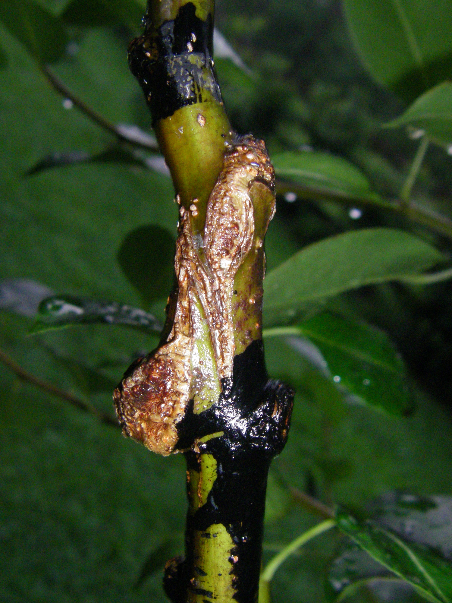 example of a whip graft that need additional attention the following season